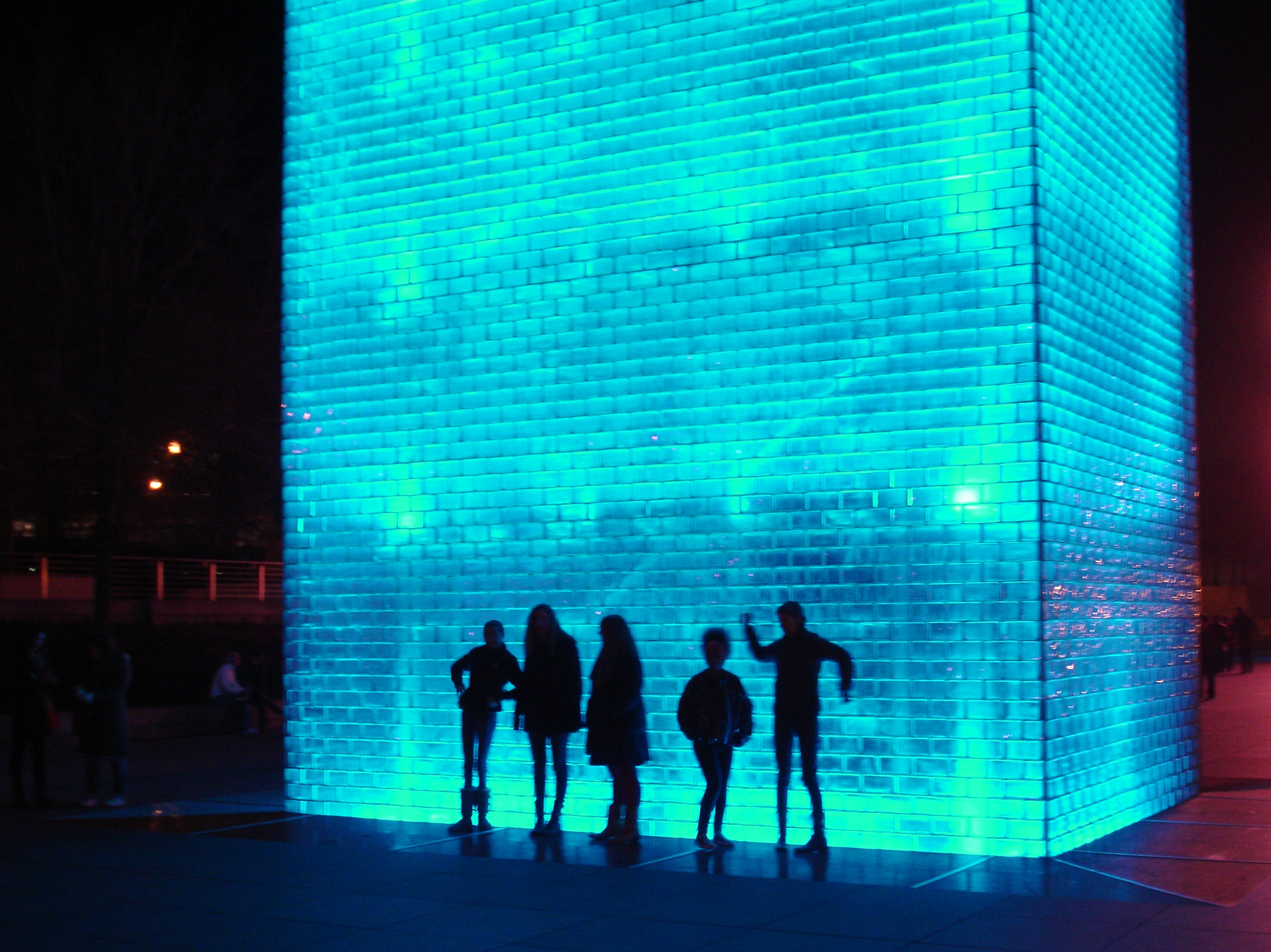 Crown Fountain in Millennium Park, Chicago, Illinois, USA. Tourists often silhouette themselves against the fountain's lighting at night.